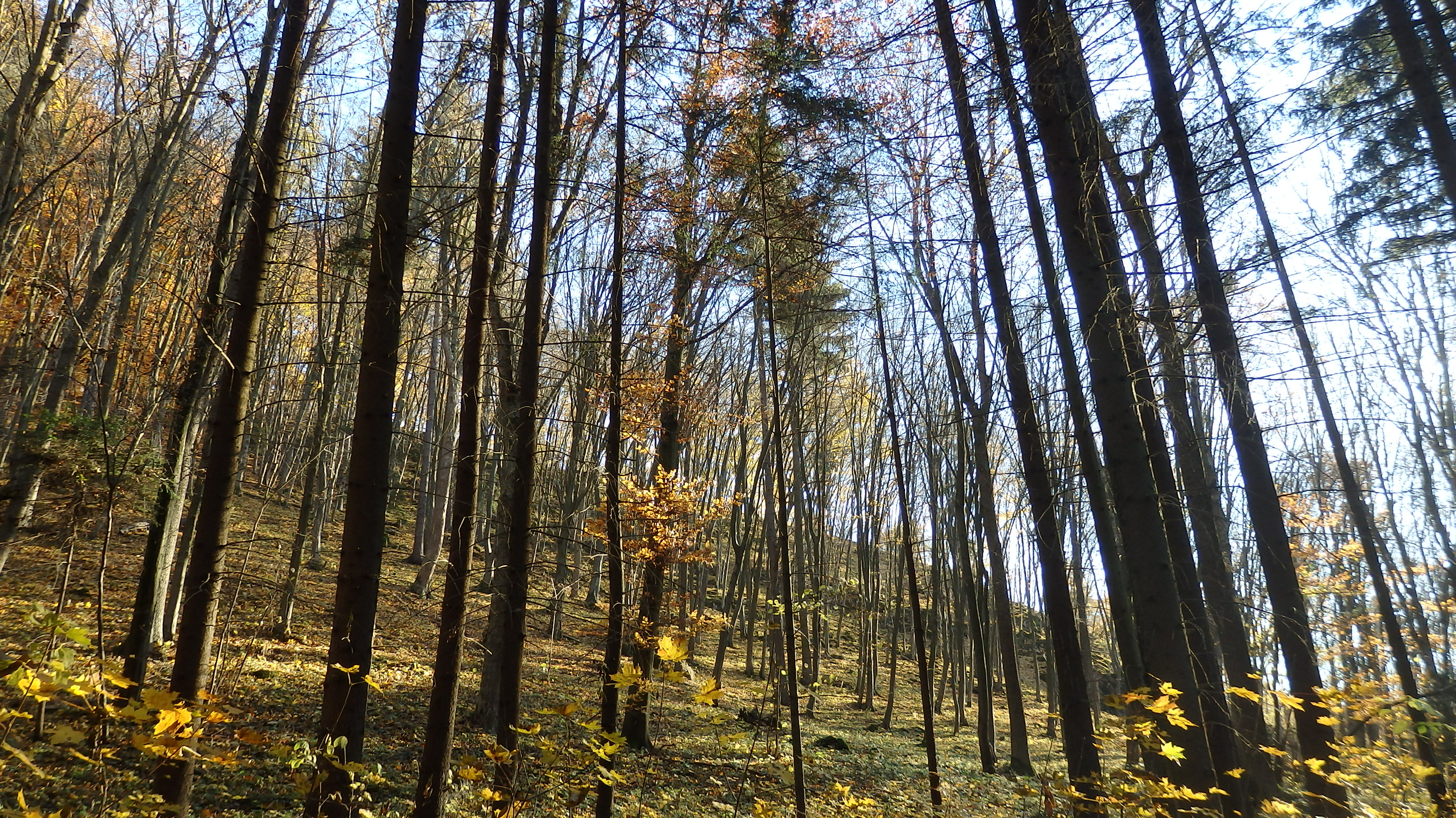 Přírodní park Říčky, klidová oblast na rozhraní okresů Blansko, Brno-venkov a Vyškov, u Ochozské jeskyně